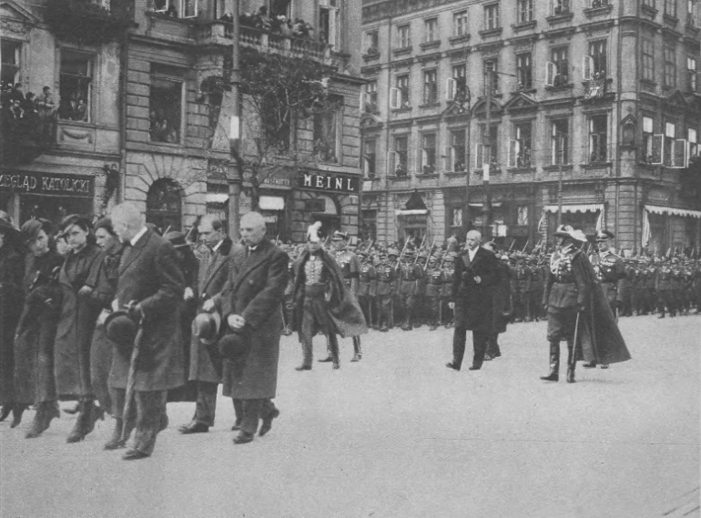 President of Poland Ignacy Mościcki, during the funeral of Józef Piłsudski. Warsaw, 1935.